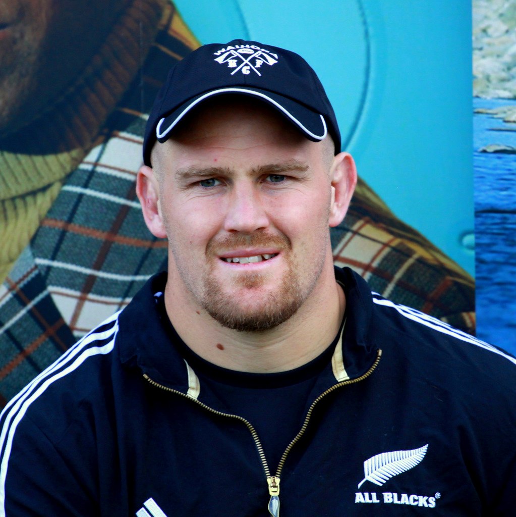 New Zealand rugby union player Ben Franks and the rest of the All Blacks visit Christchurch during the Rugby World Cup.